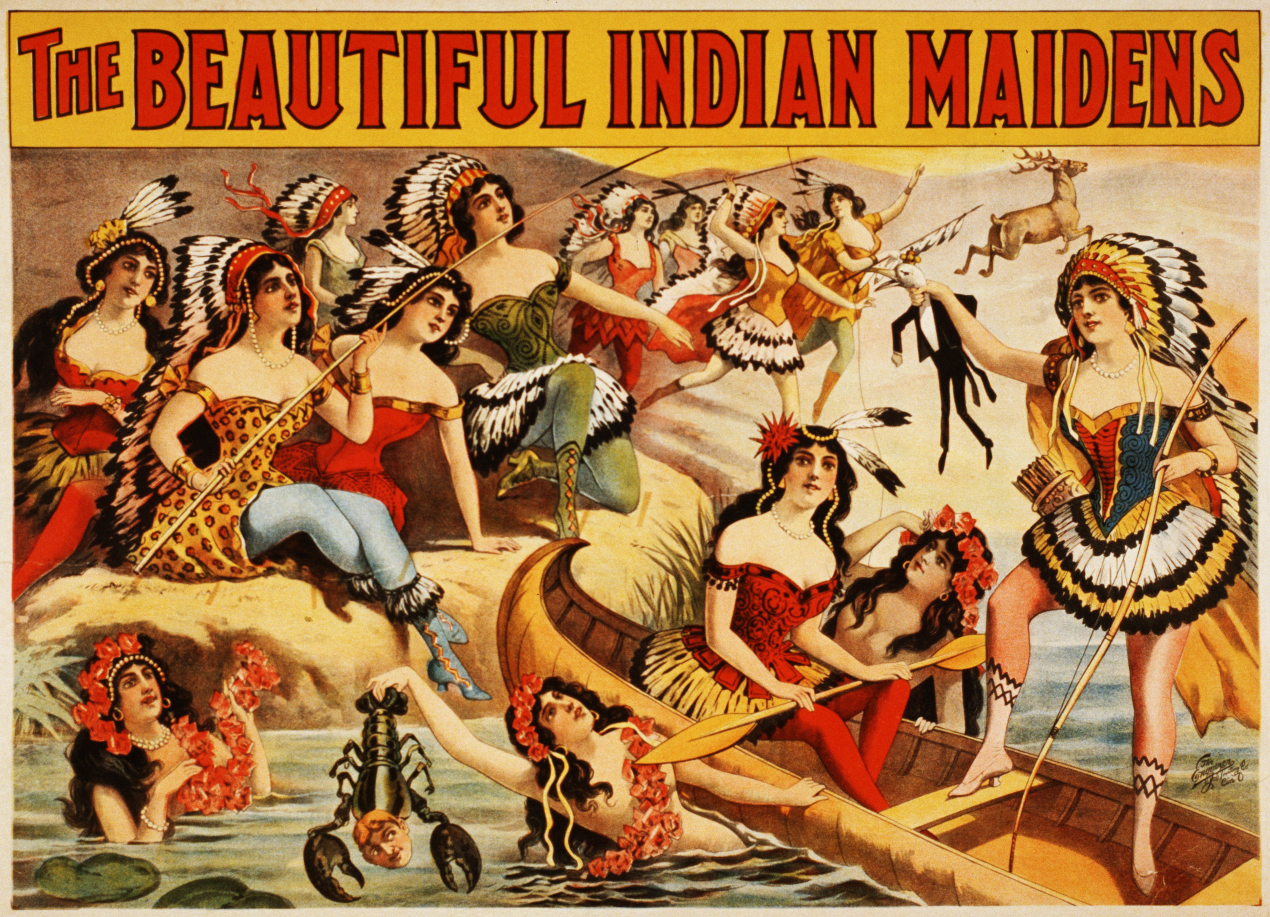 The beautiful Indian maidens. Promotional poster for a Wild West burlesque show.